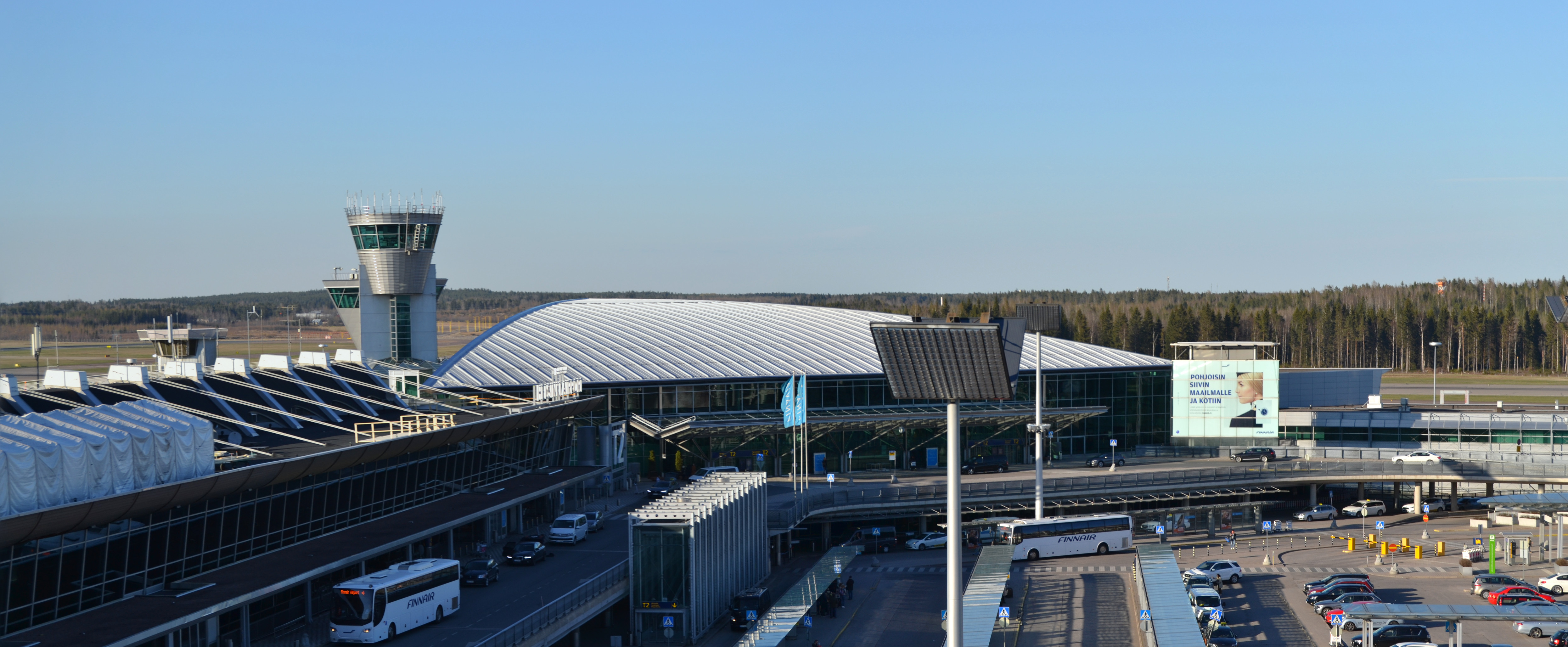 Helsinki-Vantaa Airport Terminal 2 as seen from the scenic terrace